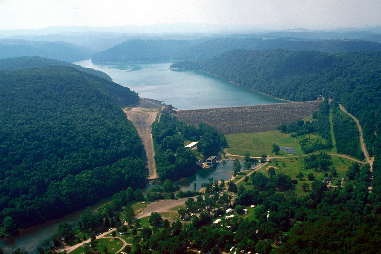 Youghiogheny Lake and Dam on the Youghiogheny River — near Confluence, Pennsylvania, USA. The dam and river span the border between Somerset and Fayette Counties in Pennsylvania. The U.S. Army Corps of Engineers constructed the dam for flood control on the Youghiogheny and Monongahela Rivers.